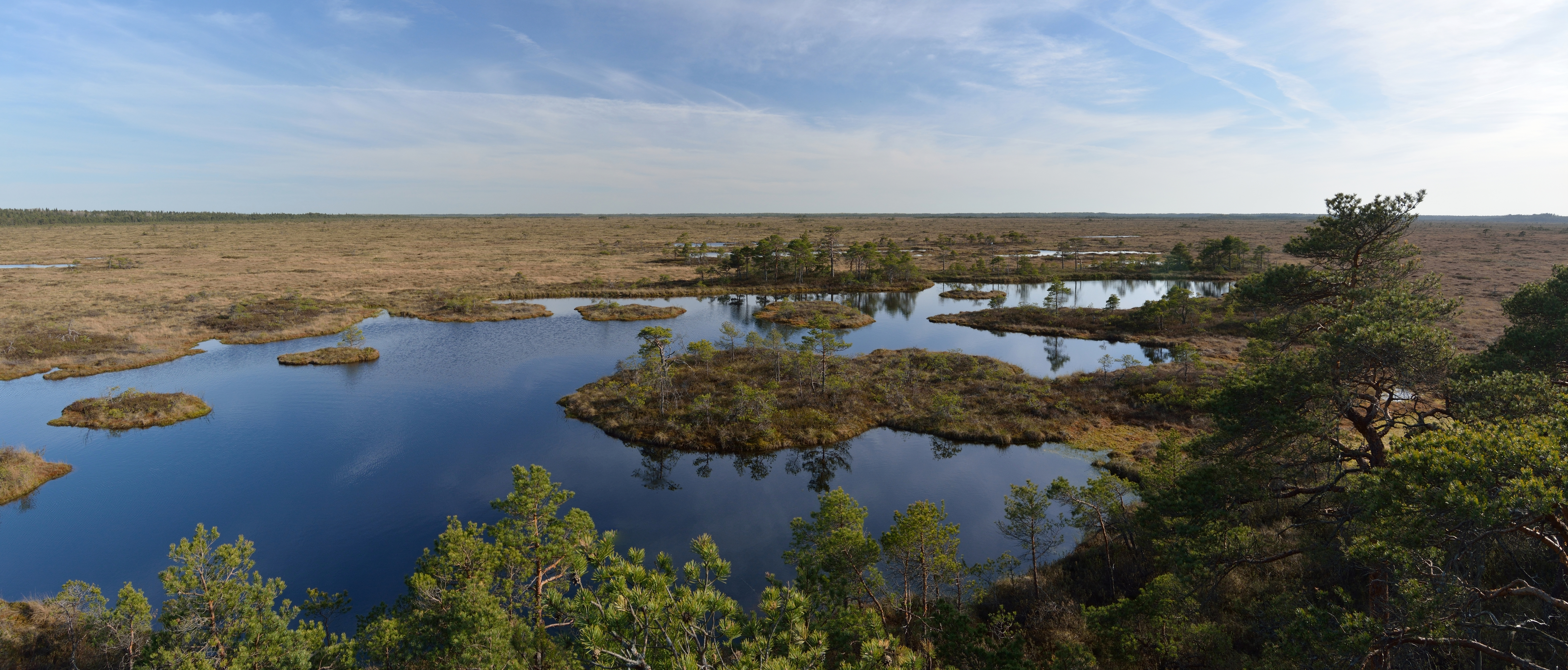 Marimetsa bog from small observation tower.